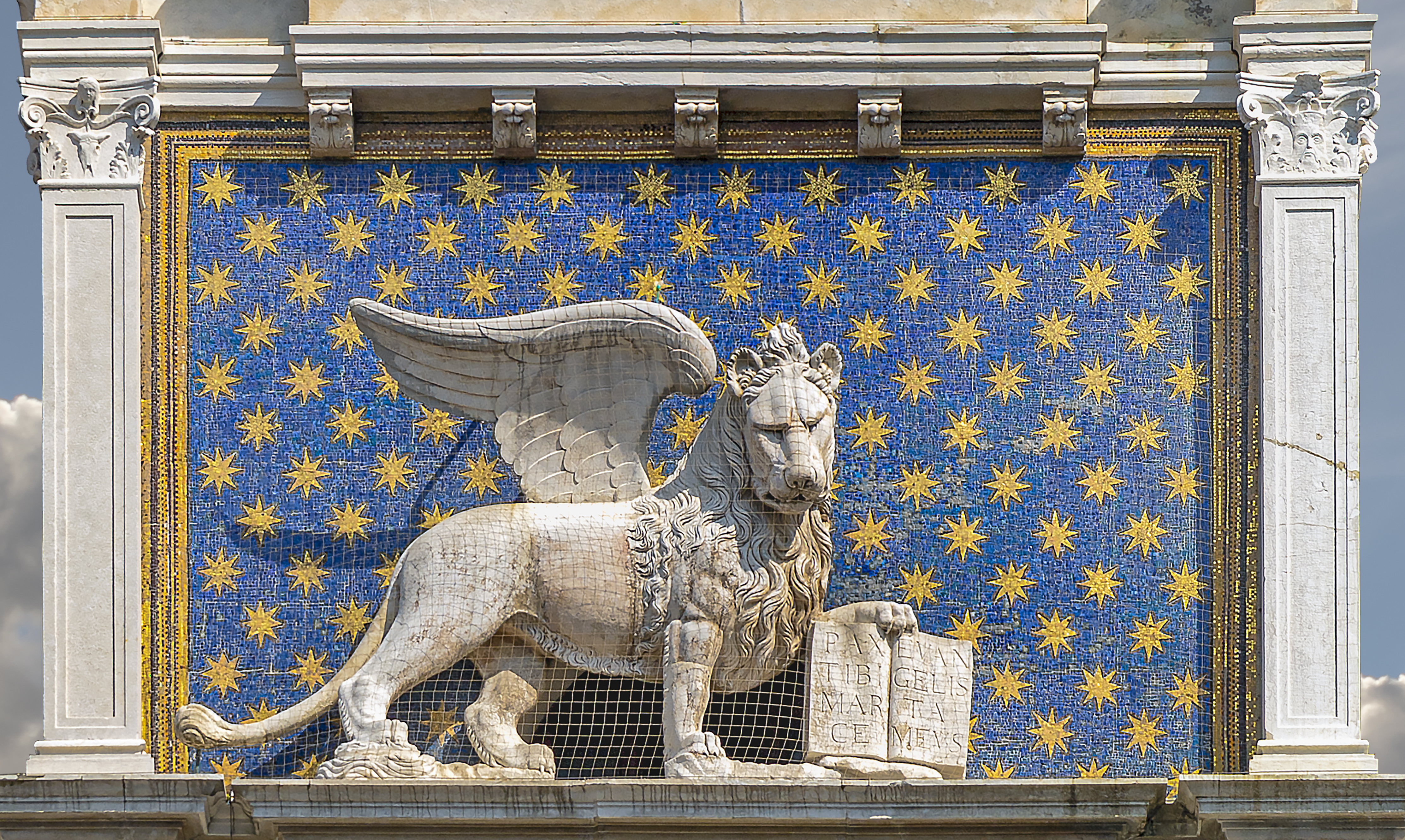 Lion of Venice, on clock tower - Piazza San Marco (Venice)